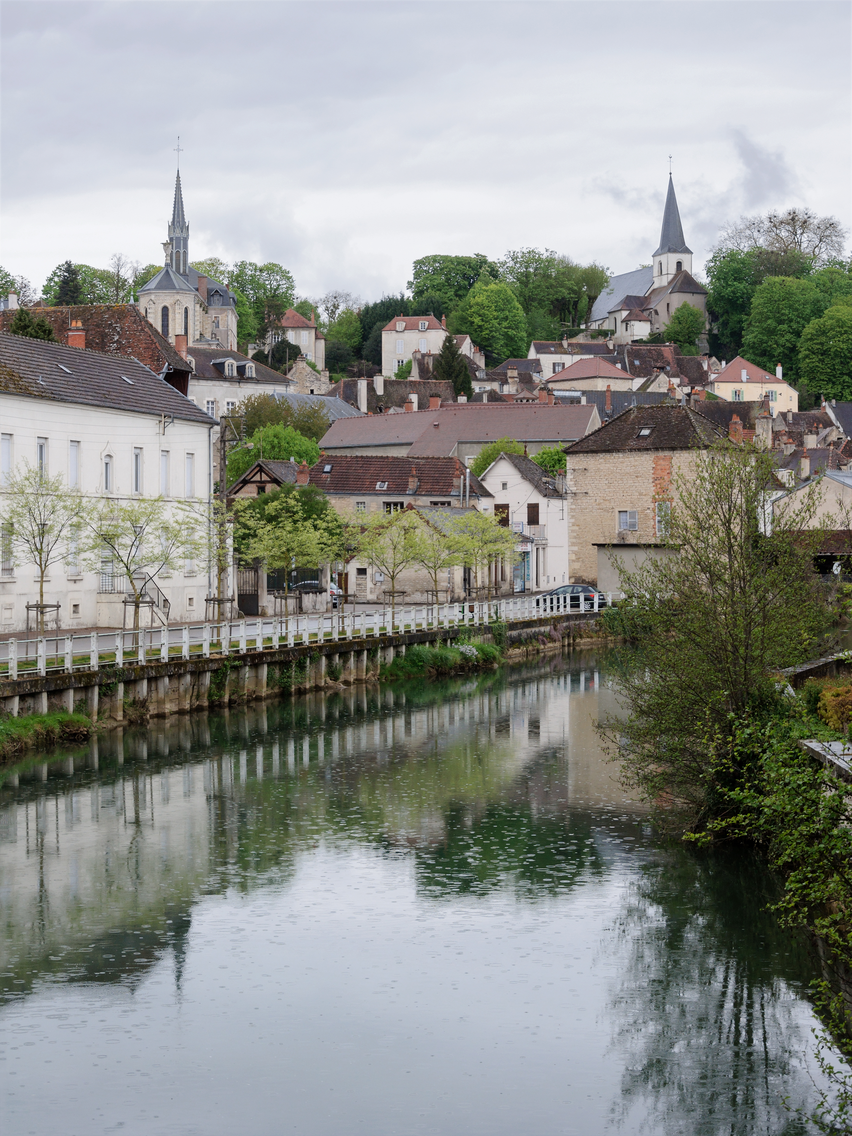 The Brenne river in Montbard, Côte-d'Or department, Burgundy, France.